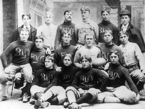 [First Brigham Young Academy football team, 1896] One of the innovations President Cluff brought back from his studies at Michigan University was athletic competition, which included both interclass and interschool games, complete with yells and cheers unheard of up to that time in Provo (and which shocked many Church leaders). The first BYA football team in 1896 played the University of Utah (BYA-12, U of U-0), the Elks, the Crescents, the YMCA of Salt Lake City, the Wheel Club of Denver, and Westminster College. BYA won the championship. The team included, back row, left to right: Eugene McArthur, president of the Athletic Association; Heber Larsen, A. D. Miller, Dave Hyde, Alma Carbine, Walter Hasler, manager; middle row: Nephi Otteson, Jesse LeFevre, Orville Larsen, Hans Poulsen, John Peterson, Andrew Peterson; front row: Albert Fillerup, Sam Hinckley, Ben C. Call, and Frank Cox.